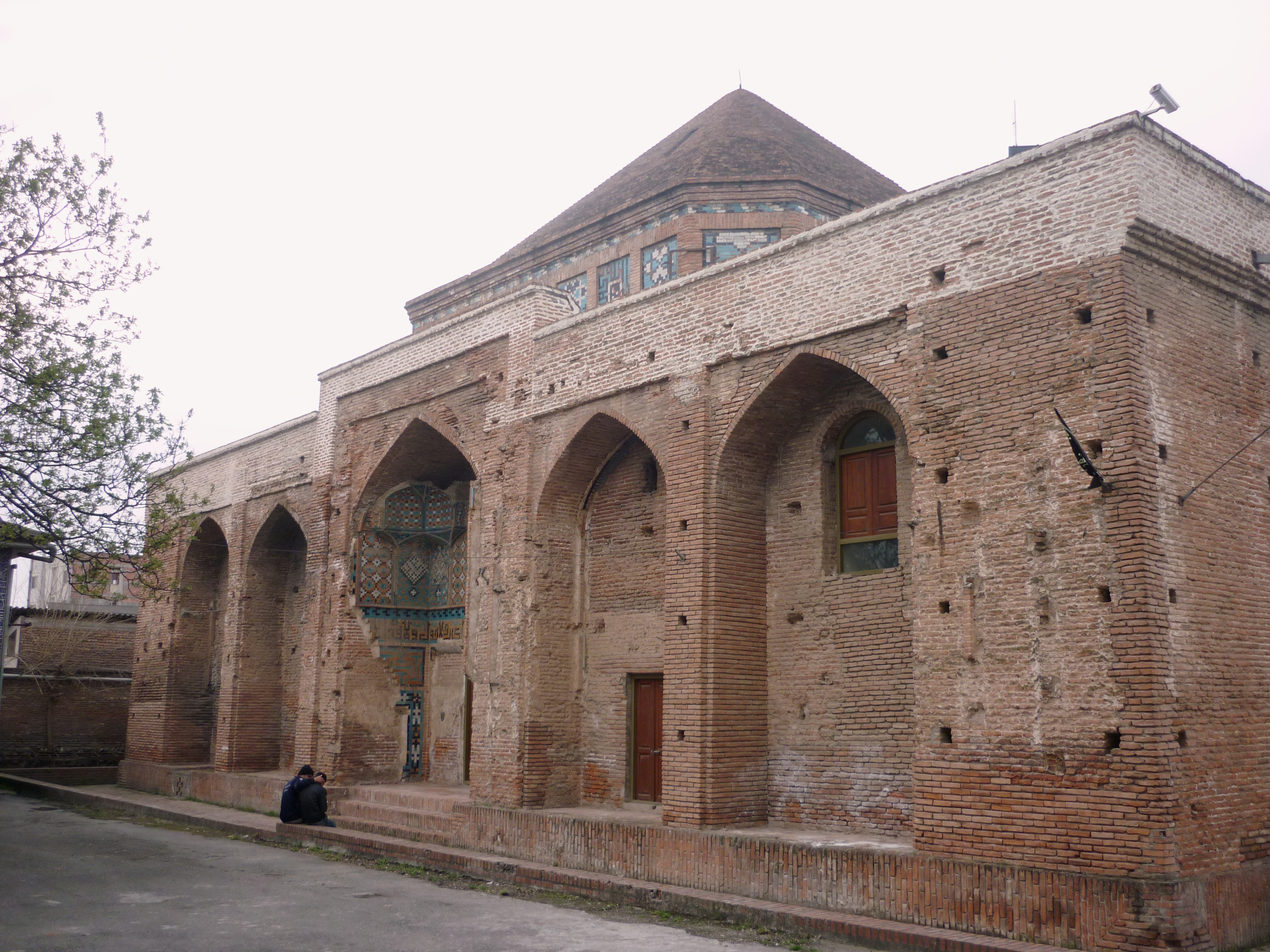 Mir bozorg Marashy Tomb in Amol city.